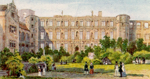 historic views of Heidelberg, Germany